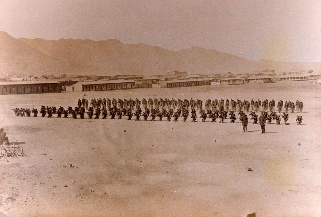 Batallón cívico de artillería naval